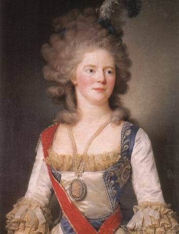 L'impératrice Marie Féodorovna, 1792